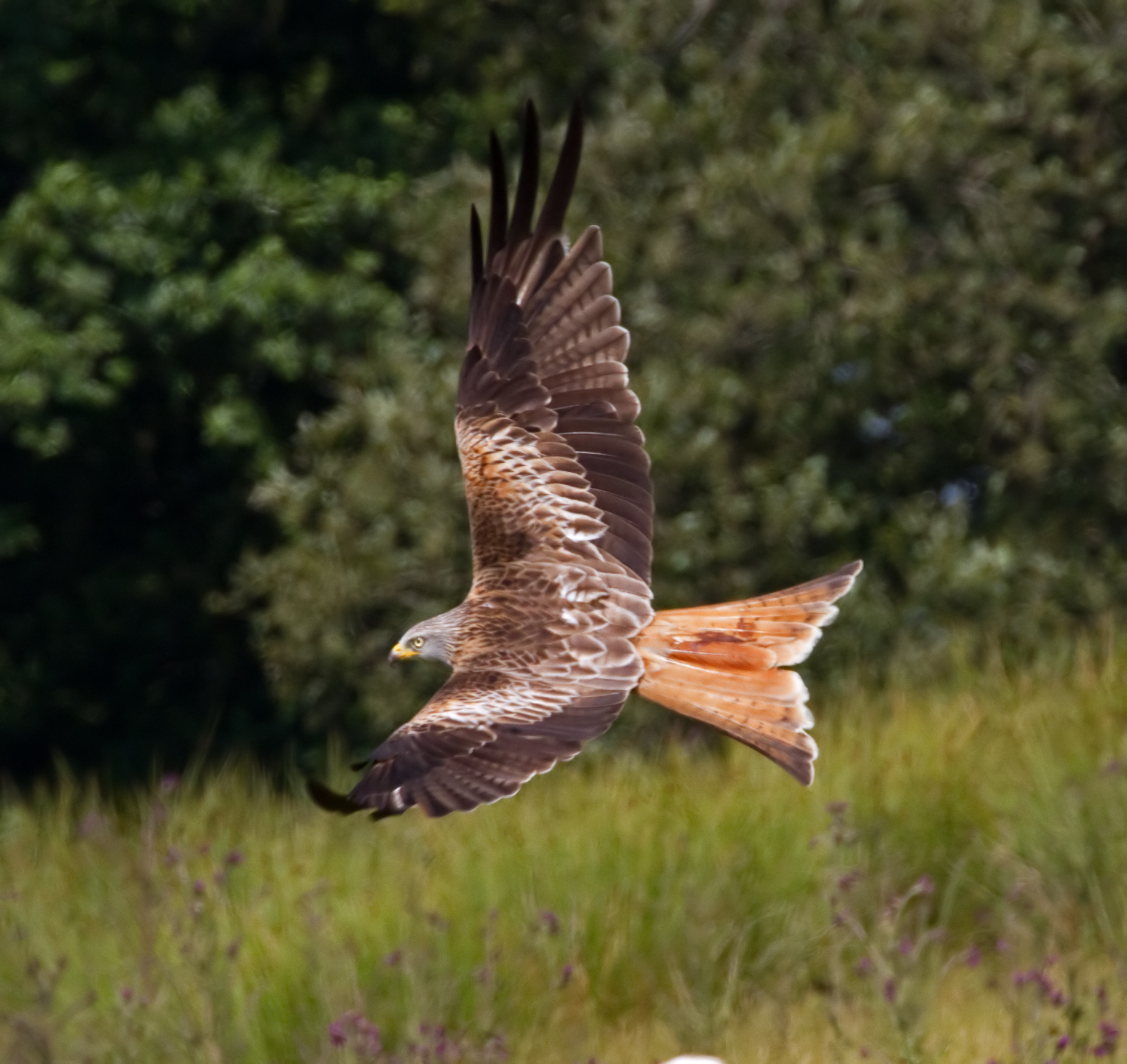 We went to the Kite feeding centre in Rhayader to watch the Red Kites. I took hundreds of photos, but have uploaded a selection.